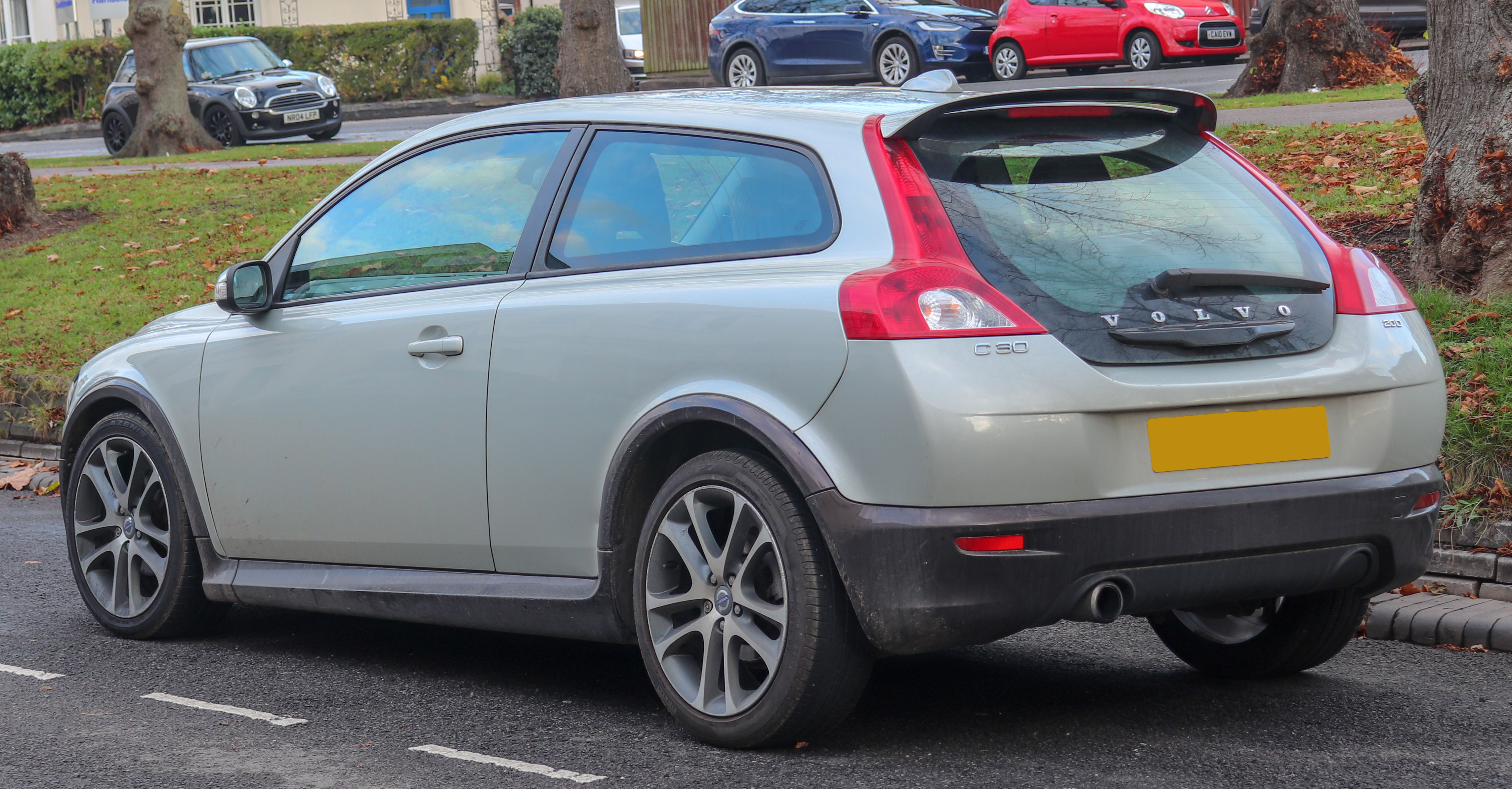 2008 Volvo C30 SE Sport D5 Automatic 2.0 Rear Taken in Leamington Spa